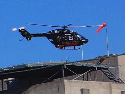 The Otago Rescue Helicopter taking off from Dunedin Public Hospital, New Zealand. Frame grab from own video